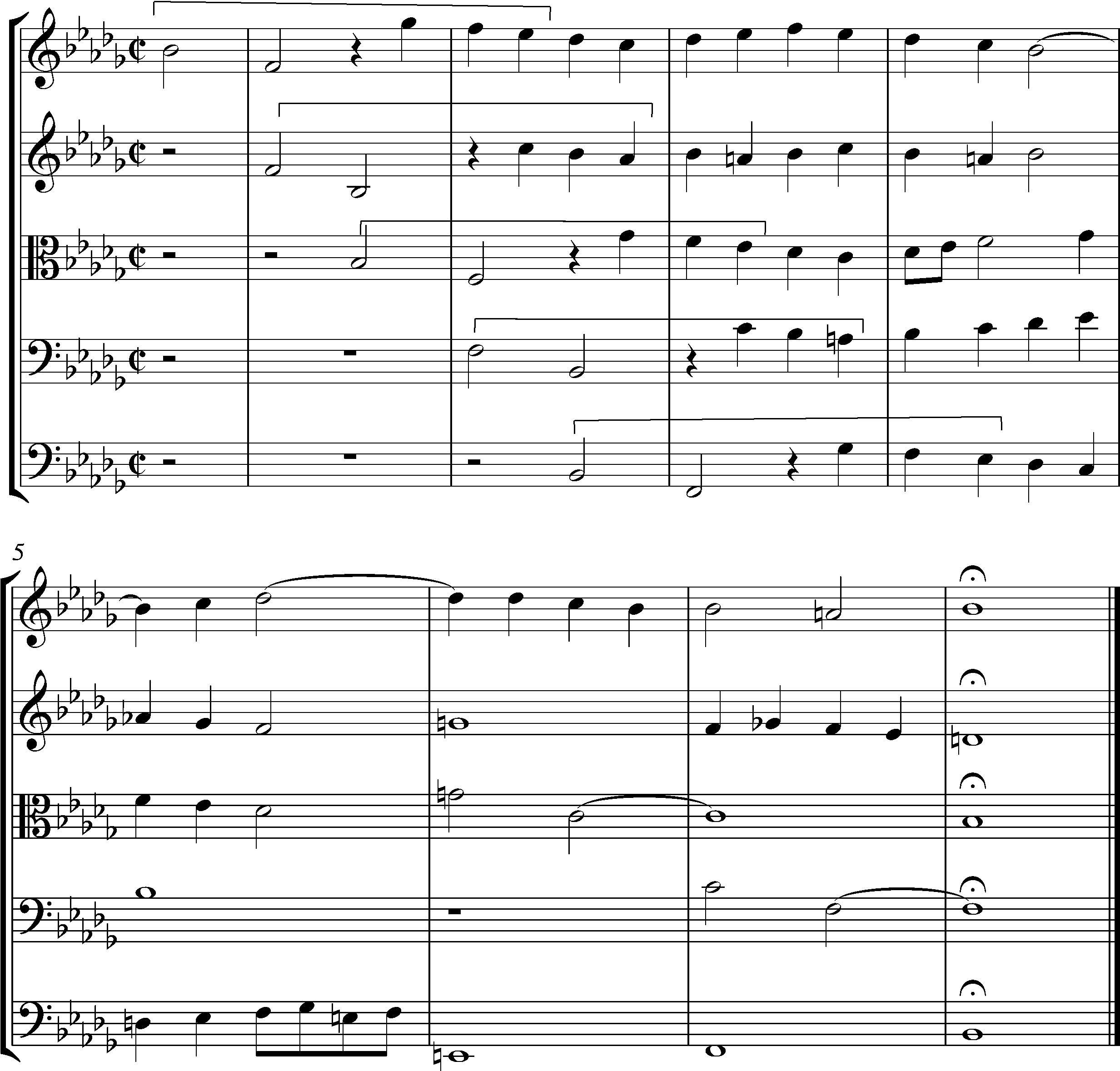 Bach Fugue XXII in B flat minor BWV 869, closing bars